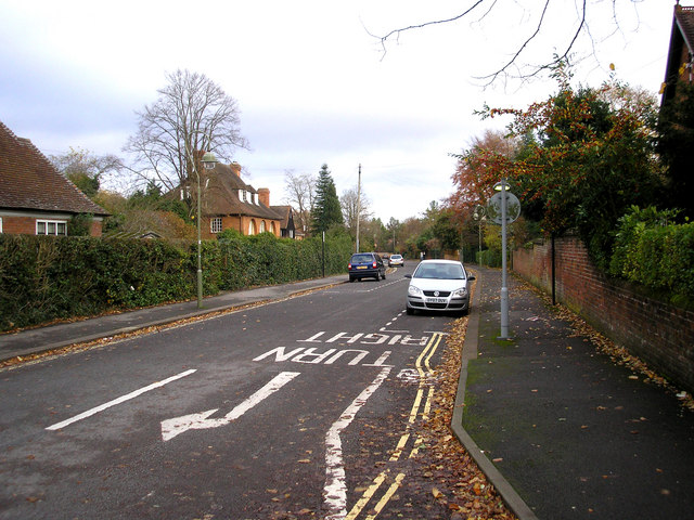 Belbroughton Road, Oxford OX2: view east from the junction with Banbury Road (A4165)